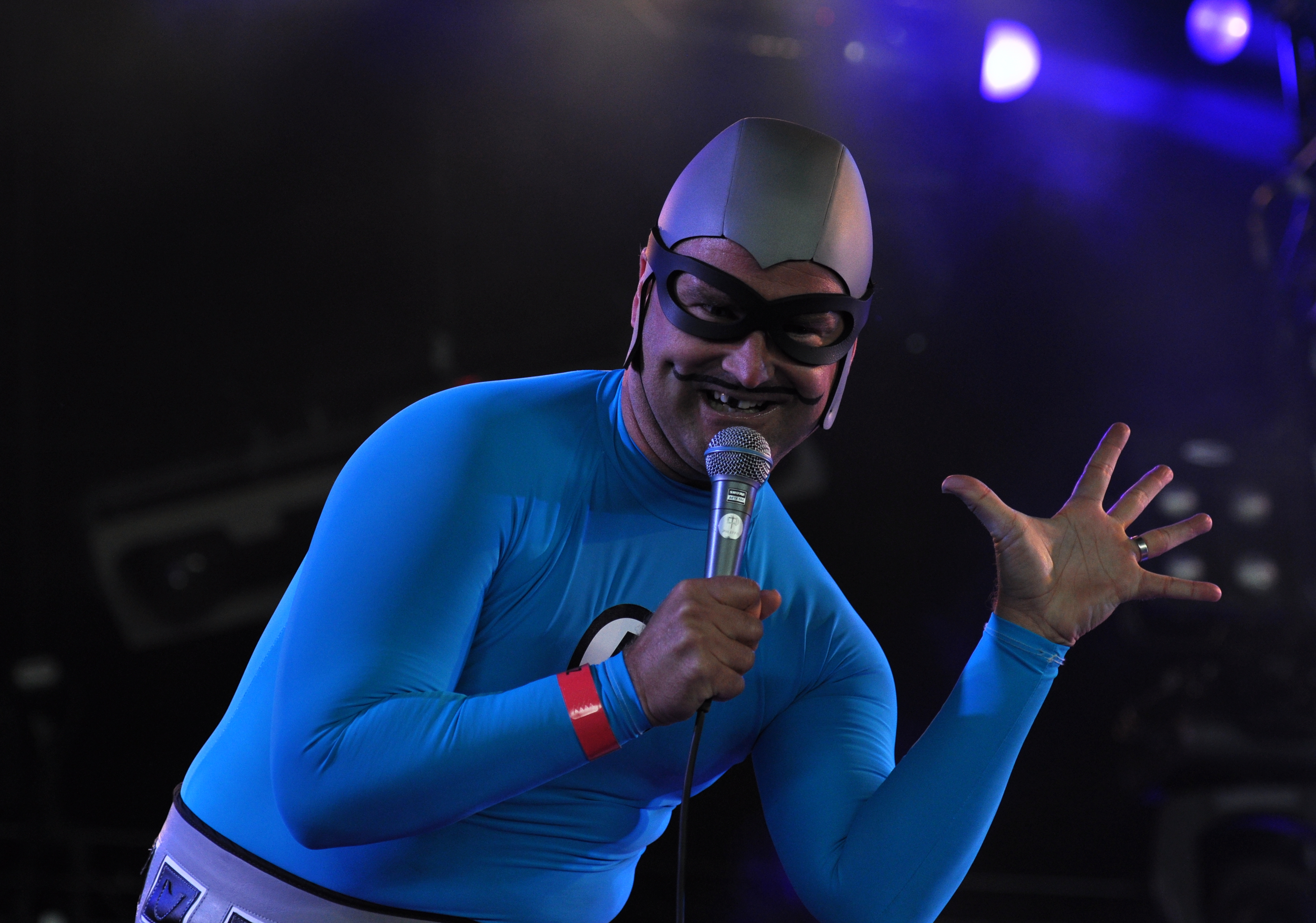 The Aquabats at Groezrock 2013